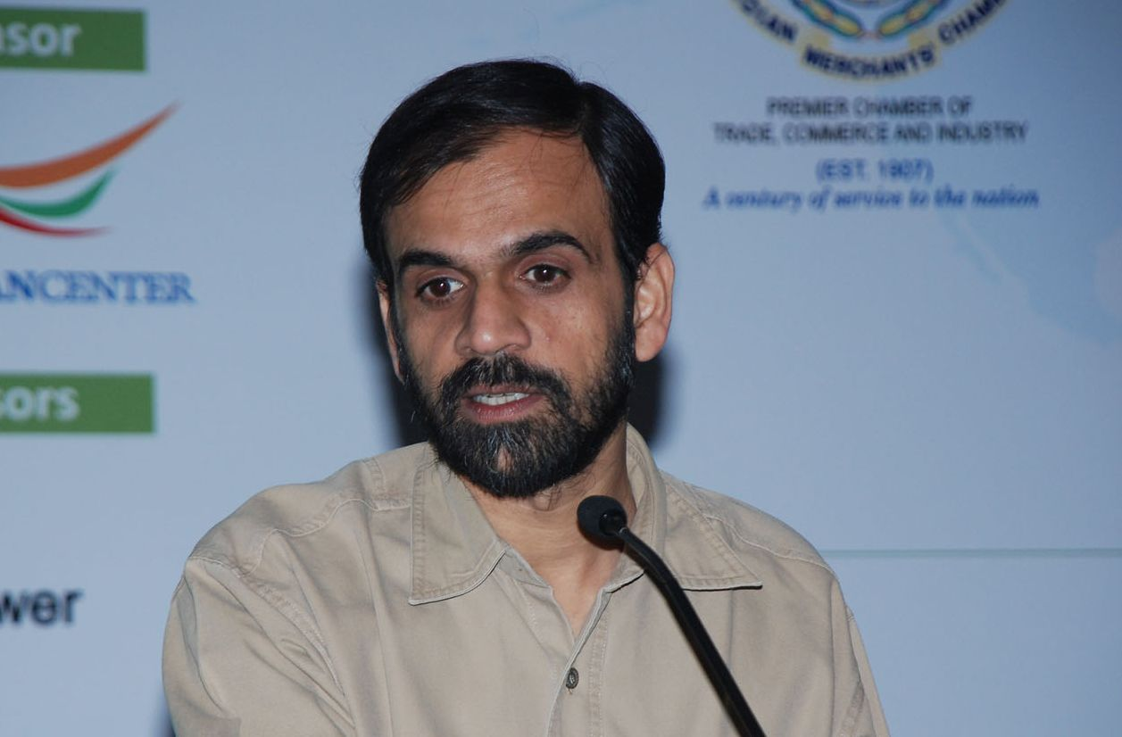 Green Industrial Evolution-India 2010